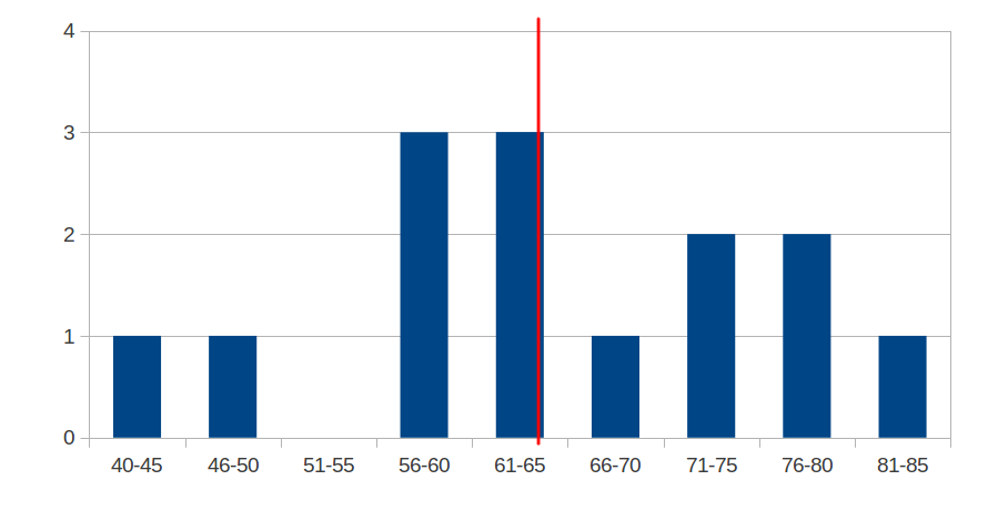 Age distribution of Indian Prime Minister